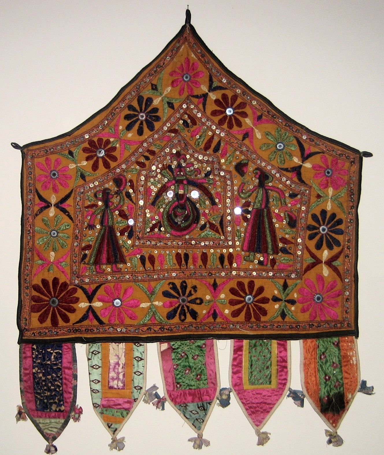 Toran from Saurashtra, India, 20th Century, plain cotton weave with embroidery and mirror work, Honolulu Academy of Arts. The hanging pieces are styalized mango leaves.